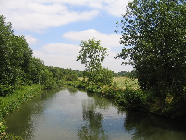 The River Leam from Willes Road Bridge. The river seen as it flows into Leamington past Newbold Comyn.